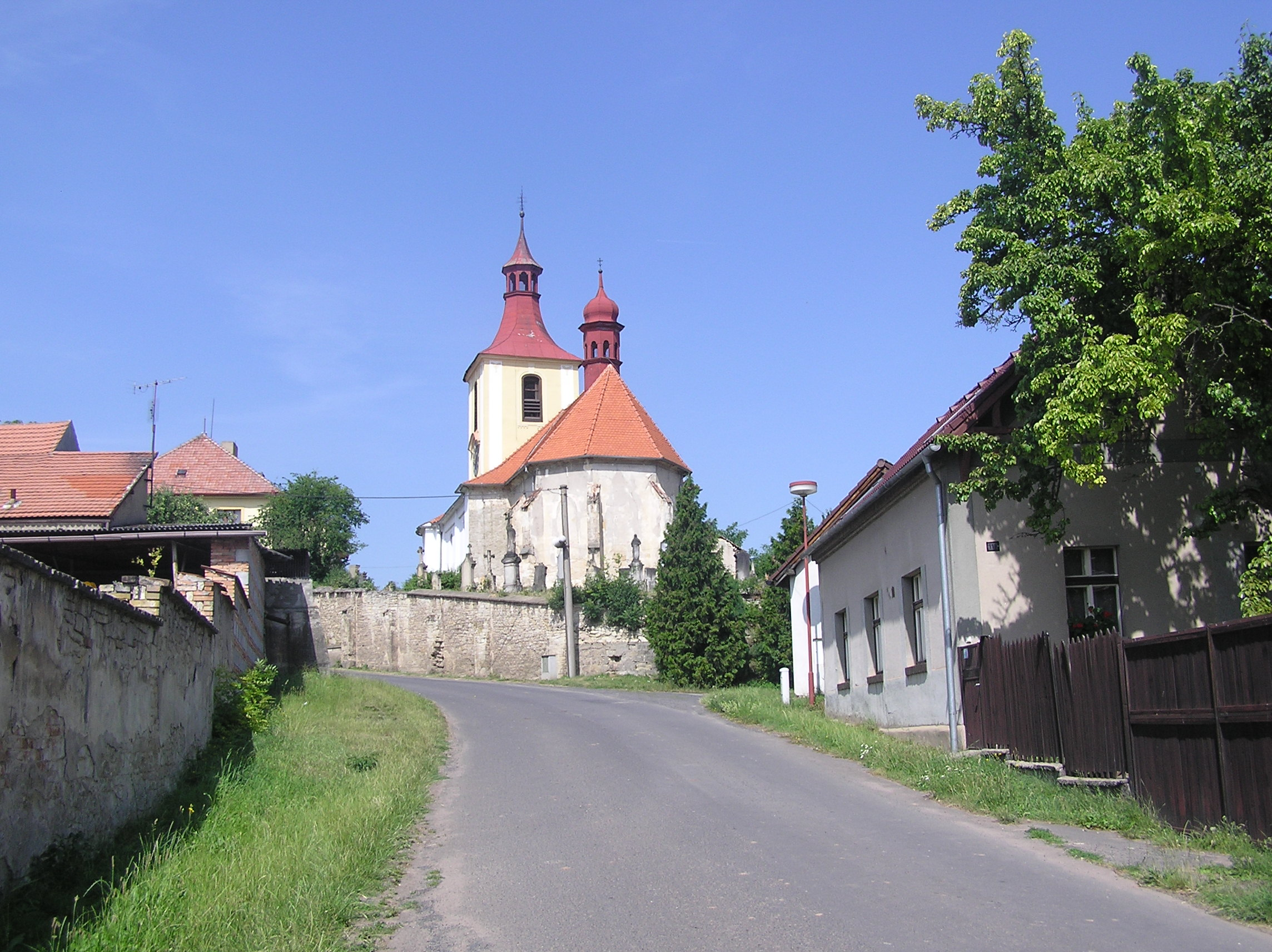 Chuirch of Saint Giles in Vinařice